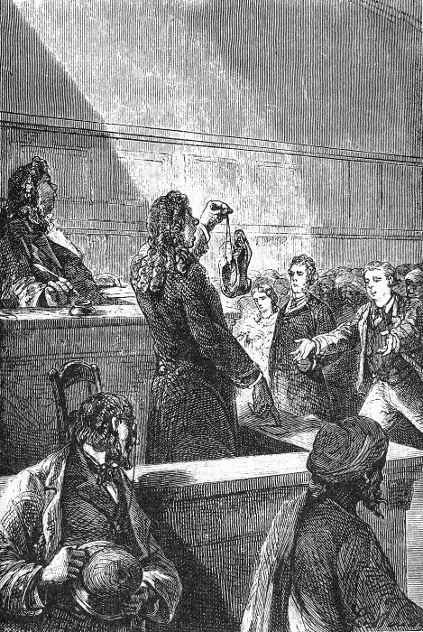 An ilustration from the novel "Around the World in Eighty Days" by Jules Verne painted by Alphonse de Neuville and/or Léon Benett.